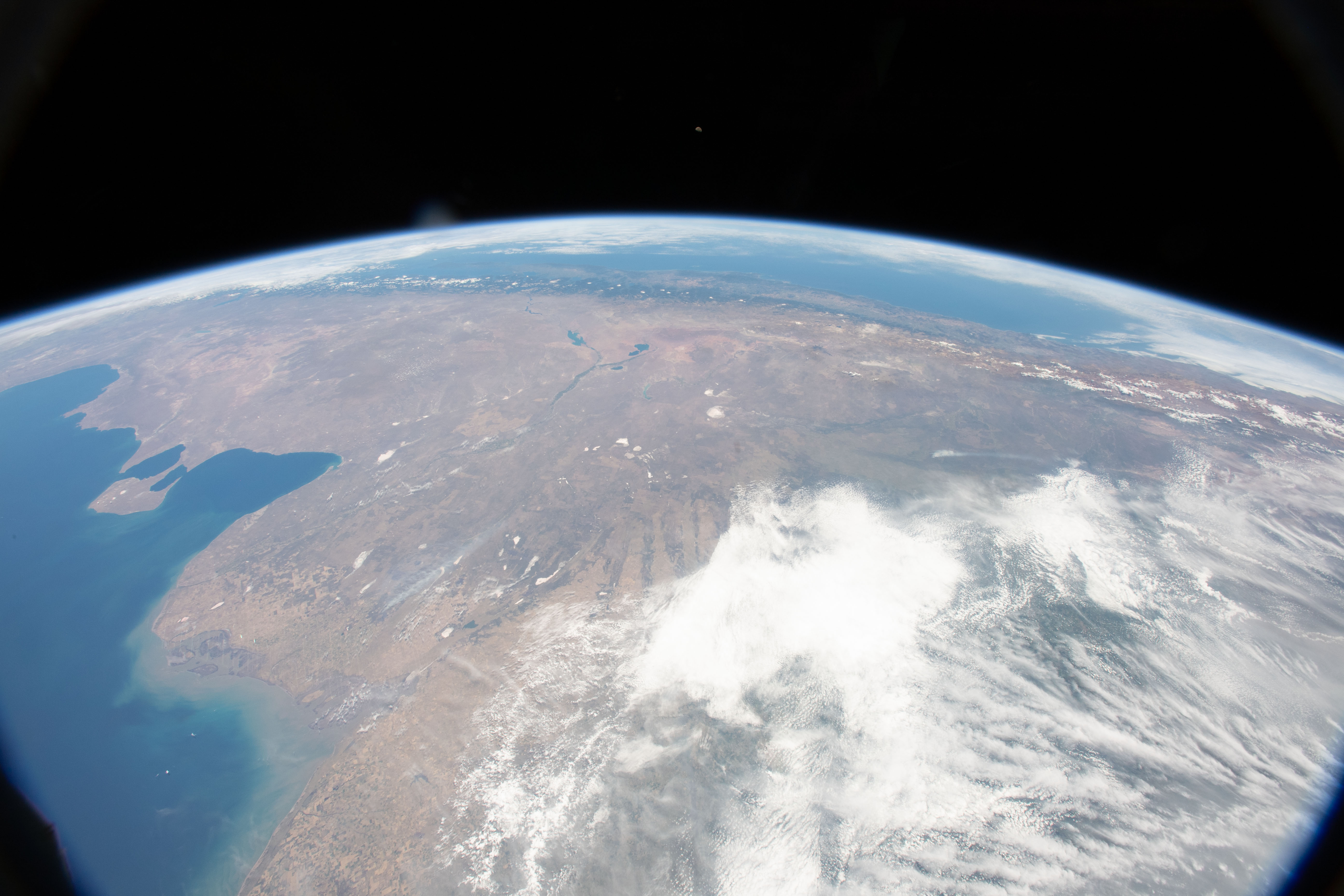 This photograph of South America from bottom to top looks from the northeast coast of Argentina to southwest across Chile, the Andes mountains and the Pacific Ocean. The International Space Station was orbiting 259 miles above the Atlantic coast of the South American continent.